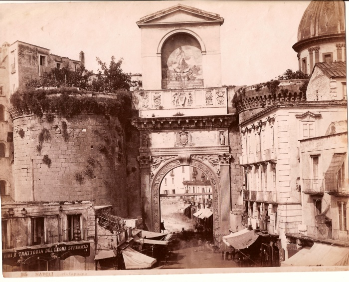 Giorgio Sommer (1834-1914), "Naples - Porta capuana city gate". Catalogue #: 1115.